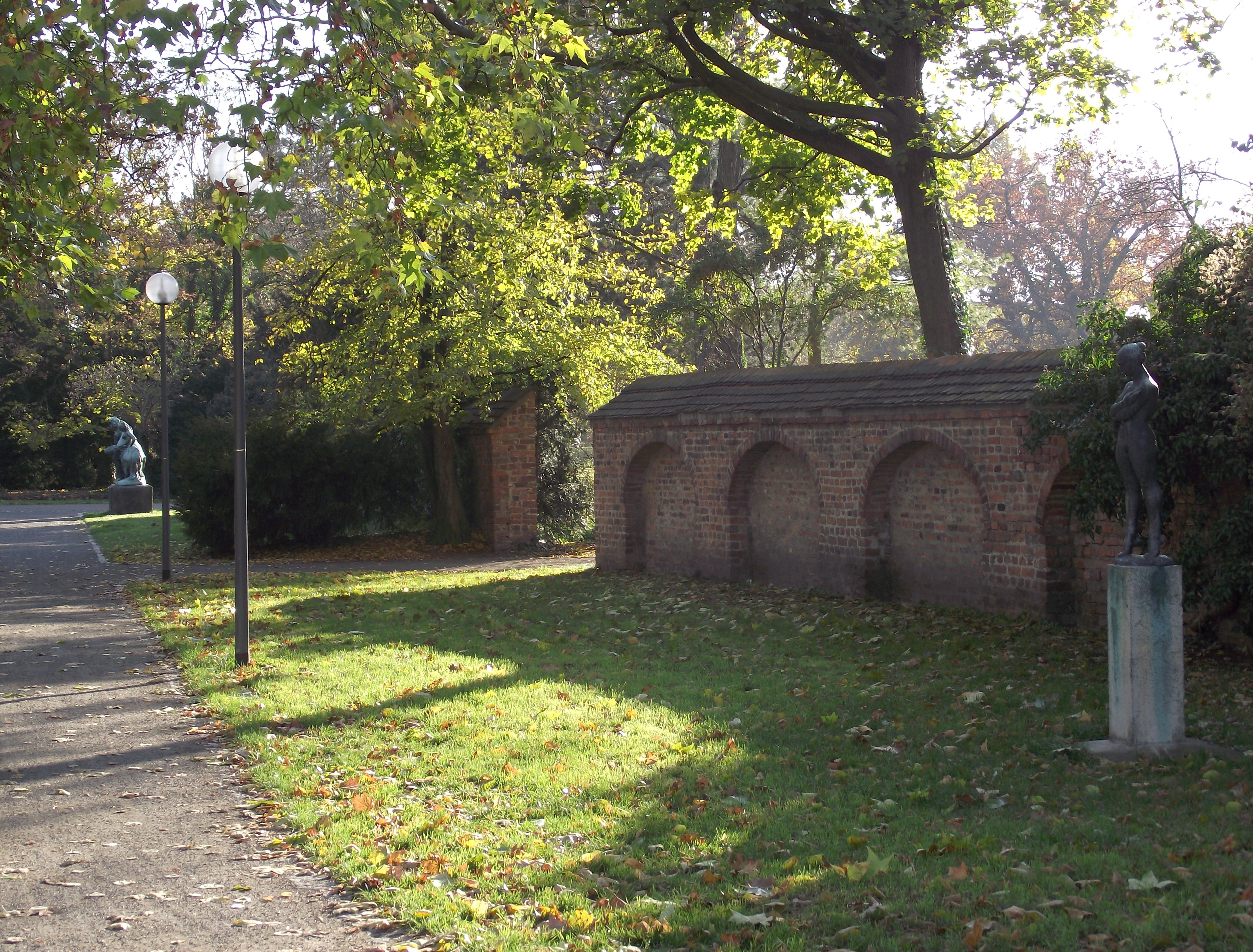 The Akzisemauer was the princly tax wall of Dessau. It was built 1712–1714 by Prince Leopold I (Anhalt-Dessau).